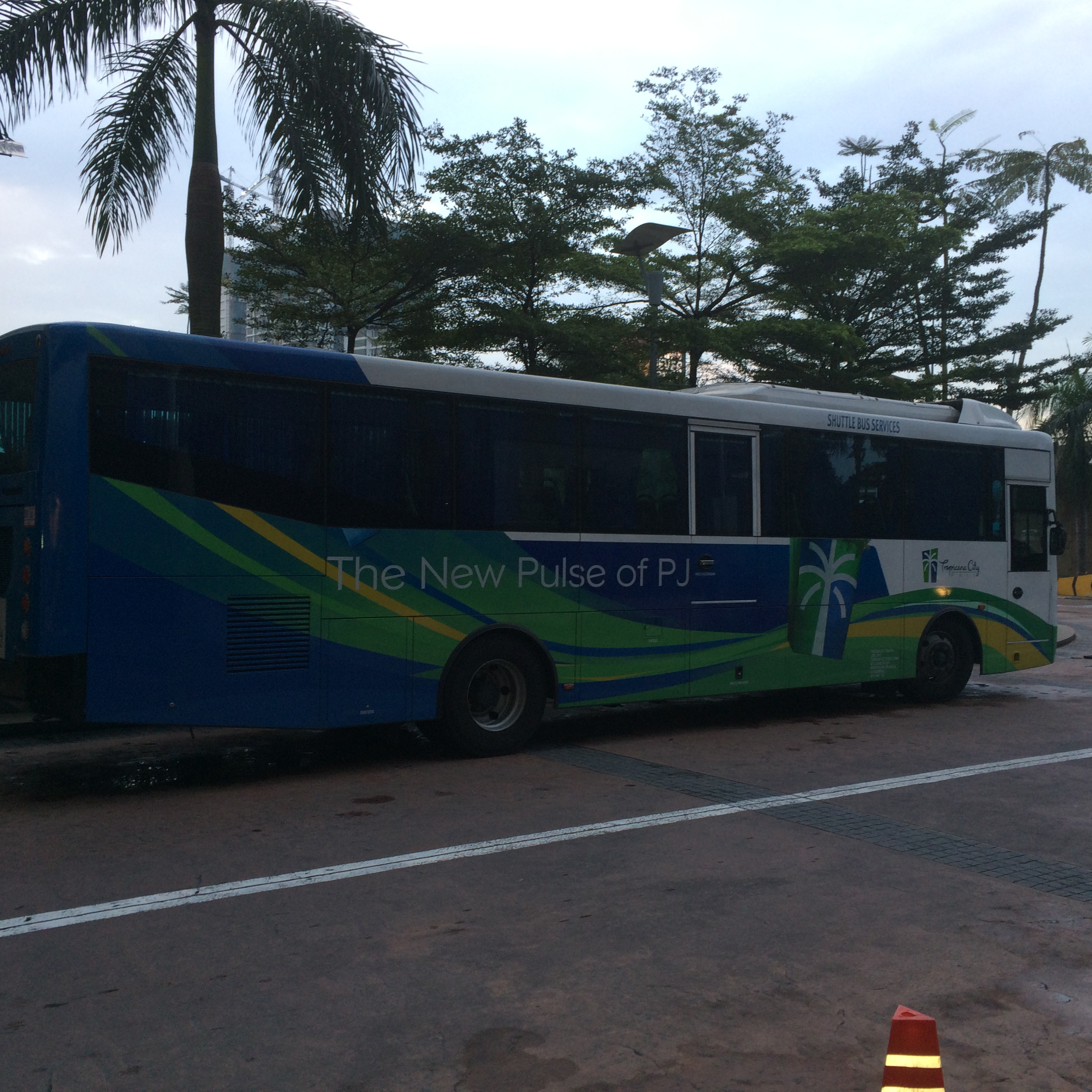 tropicana city mall shuttle bus